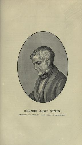 Portrait of Benjamin Barron Wiffen (1794–1867), English businessman and man of letters.